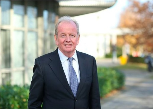 Desmond Fitzgerald - President-elect of University of Limerick